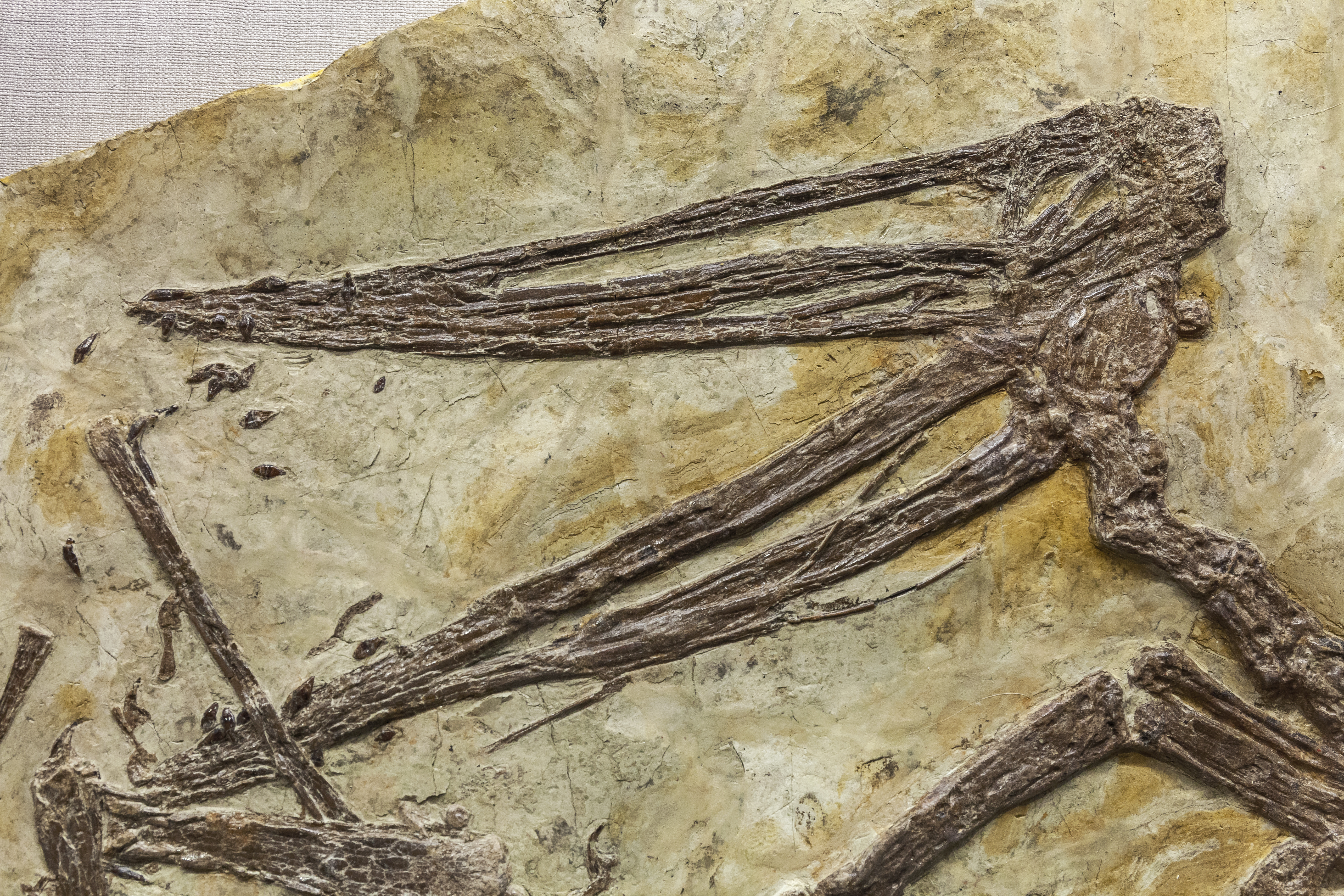 The skull of Haopterus gracilis, which is collected from Chaoyang, Liaoning, China. This specimen (BMNHC Ph767) is a collection of Beijing Museum of Natural History and was on display in National Museum of Natural Science (Taichung, Taiwan) during a special exhibition.